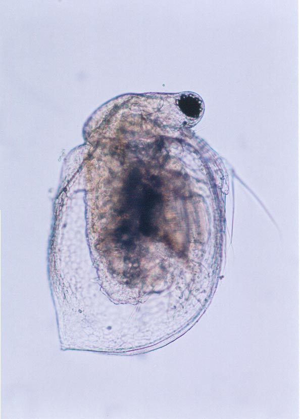 General overview of a female cladoceran species of Ceriodaphnia silvestrii Daday (1902). Magnification 100x.